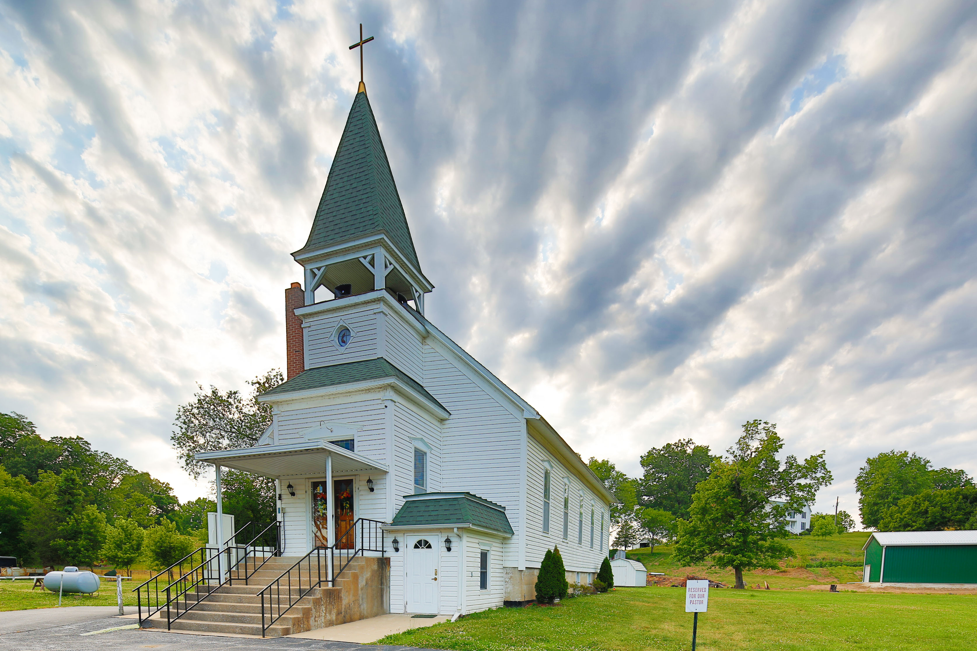 Tebbetts Missouri United Methodist Church Spring 2012 at Sunset Taken by ThePhotoRun's Jason Runyon